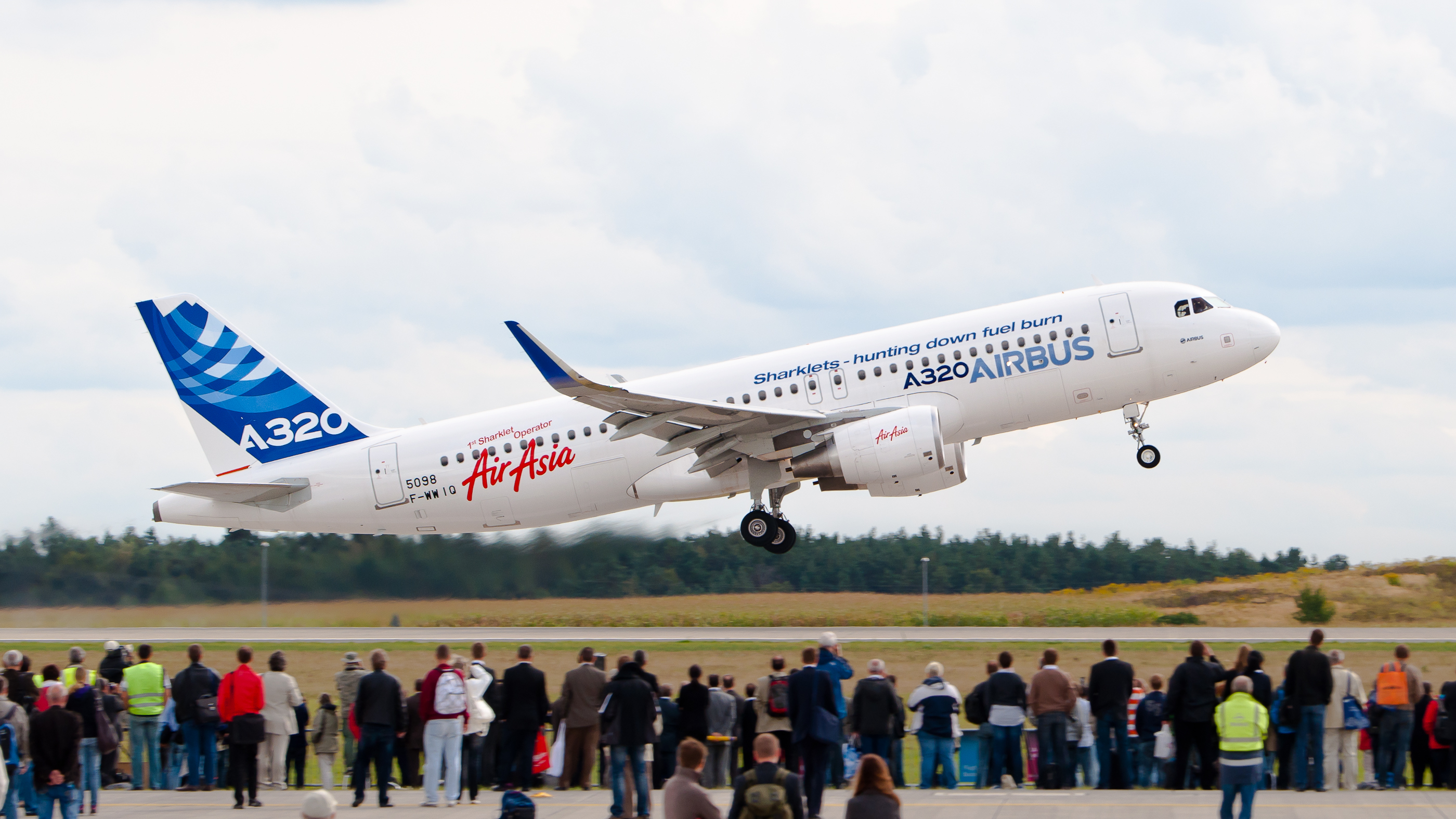 A320 Enhanced (A320E) prototype (F-WWIQ) with sharklets at ILA Berlin Air Show 2012.